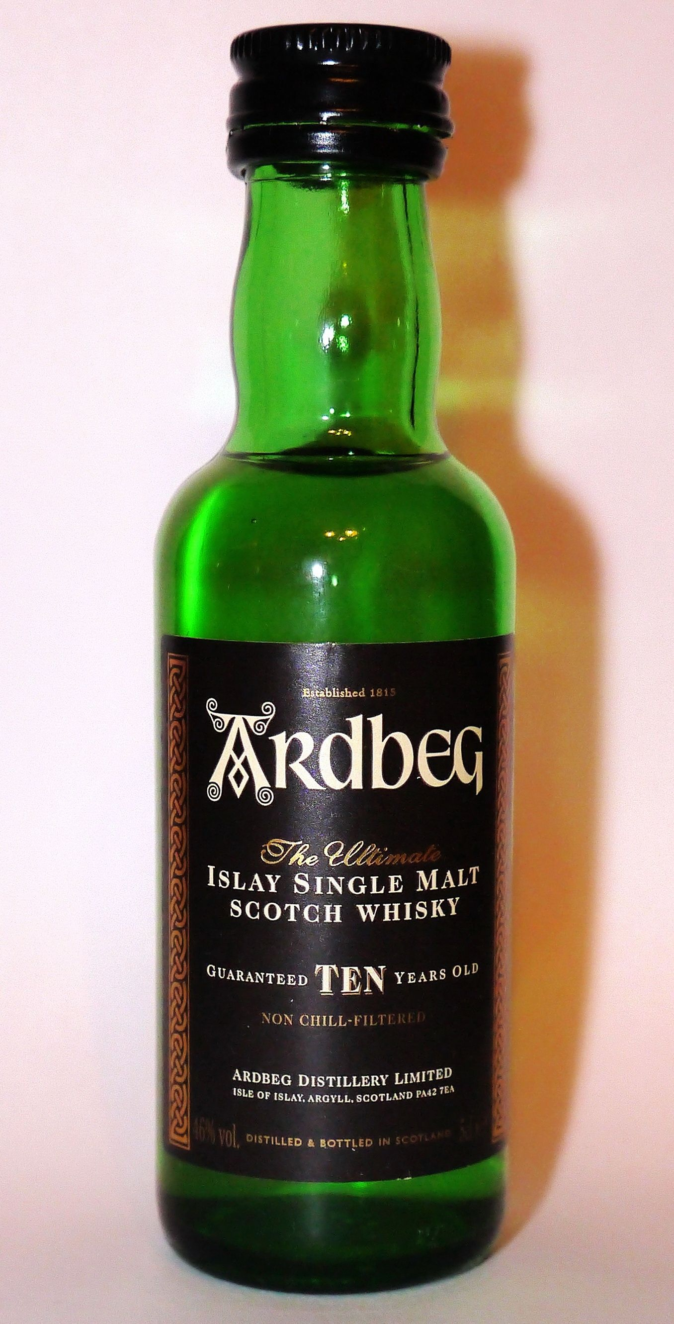 Ardbeg The Ultimate Islay Single Malt Scotch Whisky Ten Years Old